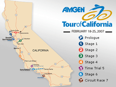 Parcours of the 2007 Tour of California